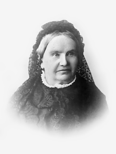 Julie Hagen-Schwarz